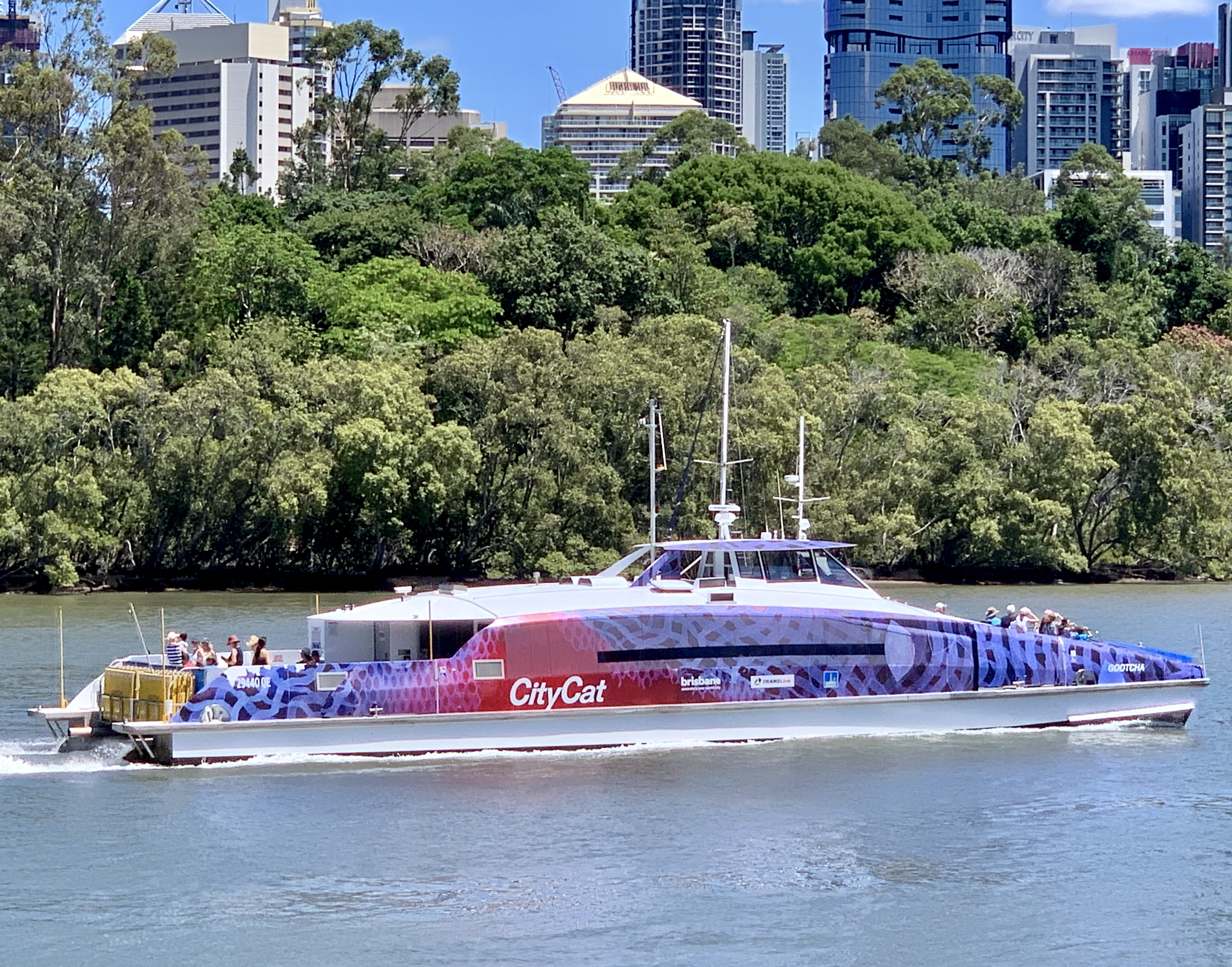 CityCat Gootcha (ship, 2010) in January 2019 in Brisbane